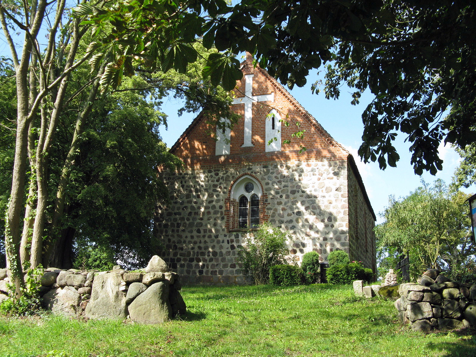 Church in Groß Upahl, disctrict Güstrow, Mecklenburg-Vorpommern, Germany